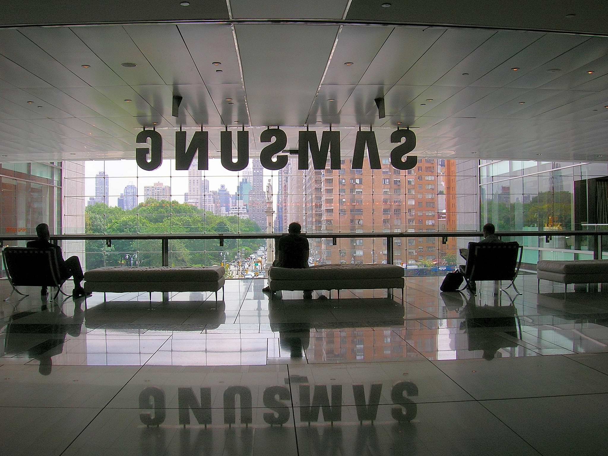 View from Time Warner Center